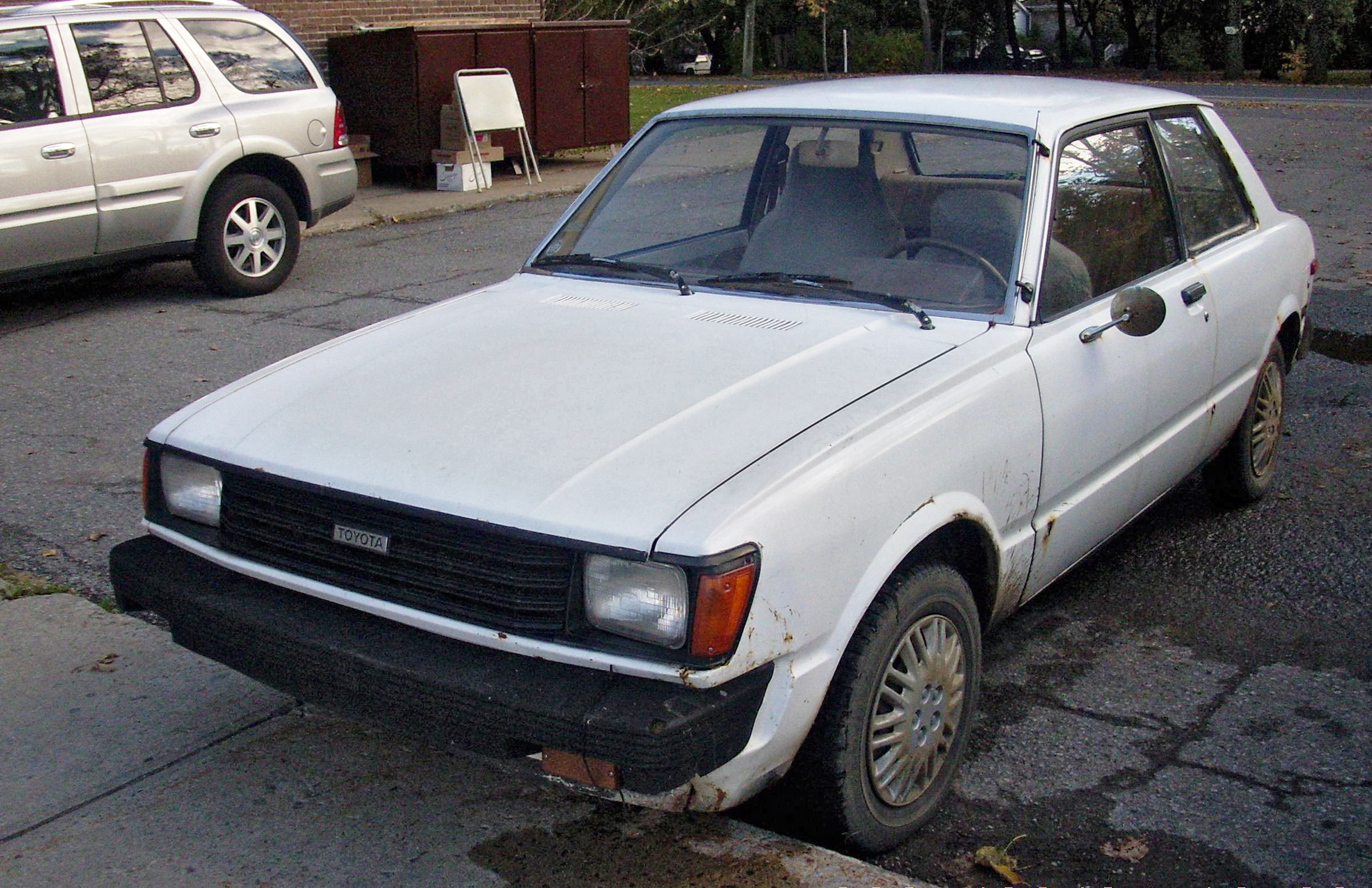 1981 Toyota Tercel photographed in Beaconsfield, Quebec, Canada.